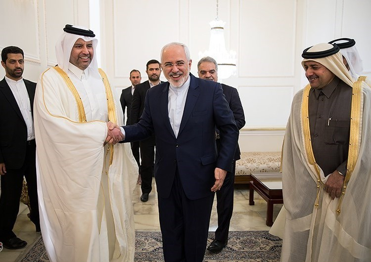 Ahmed bin Jassim Al Thani the Appointed Minister of Economy and Trade of Qatar meets Mohammad Javad Zarif in Tehran- 5 November 2017